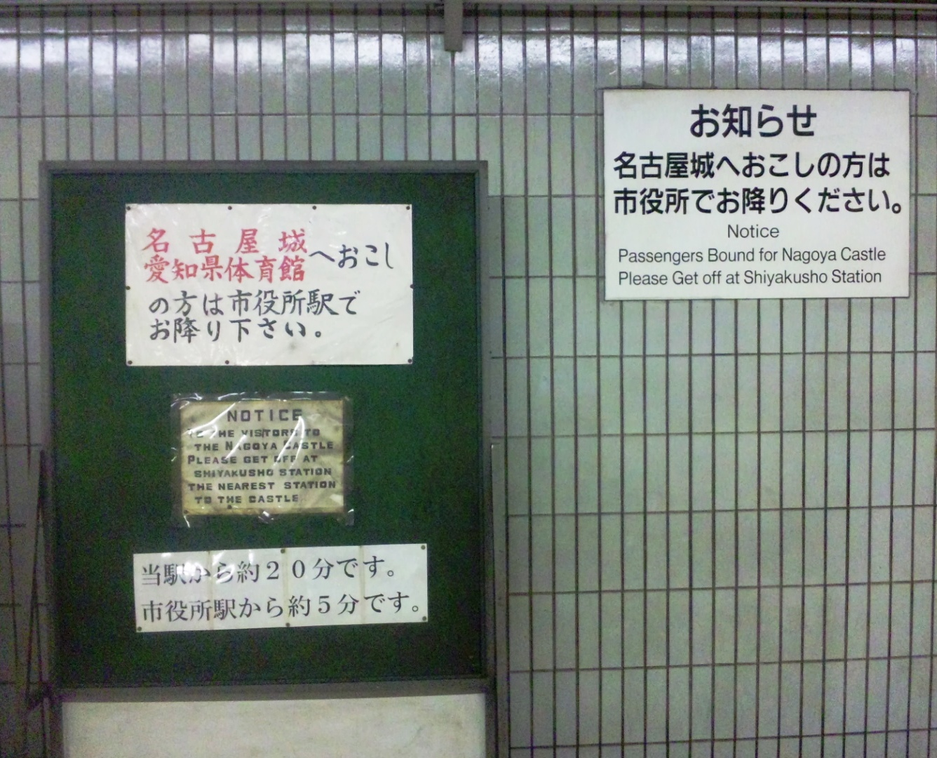 Notice board at Meijo-Koen Station asked to get off at Shiyakusho Station when going to Nagoya Castle or Aichi Prefecture Gymnasium. First,it was written by hand in Japanese only.